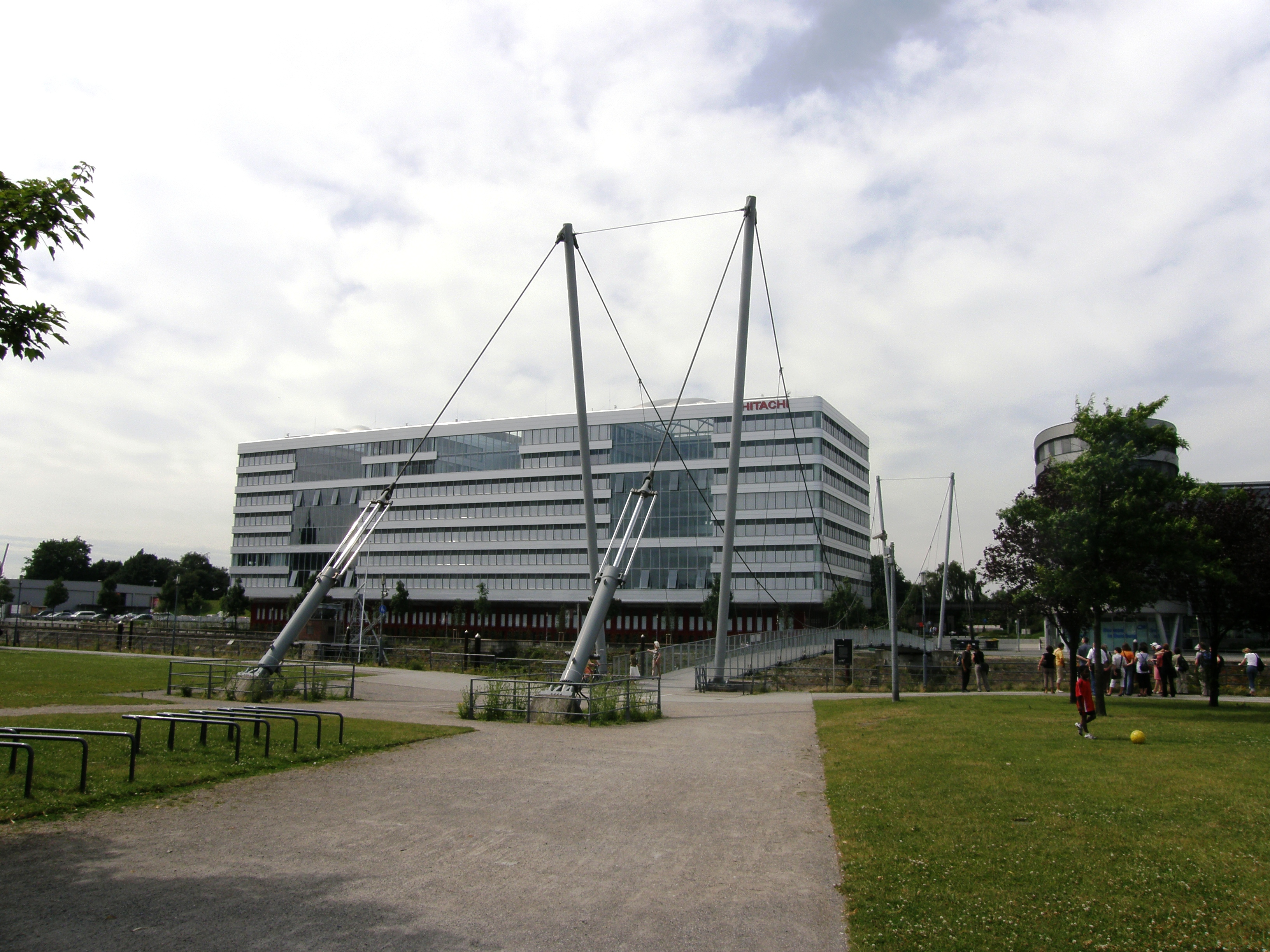 Buckelbrücke in Duisburg